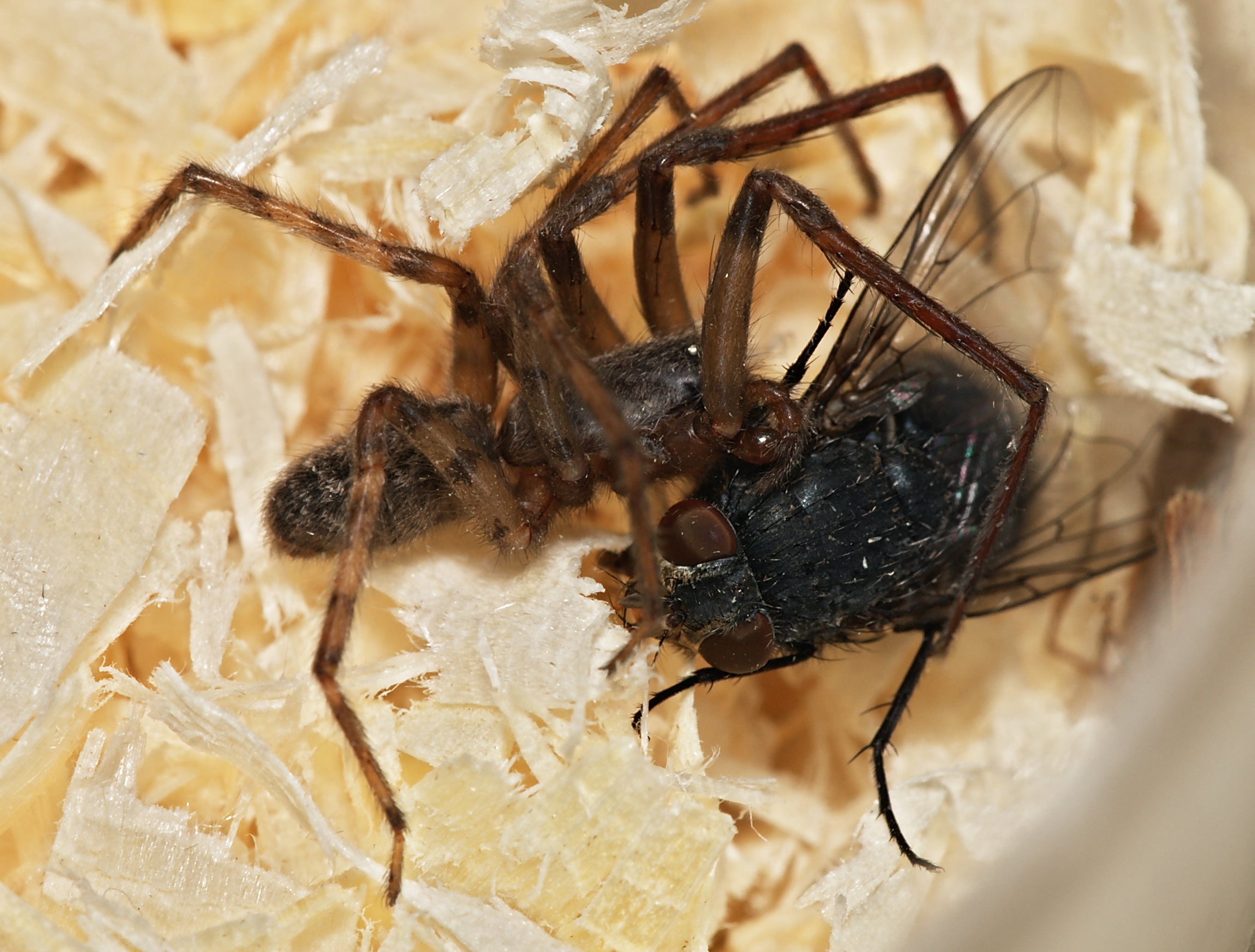 Unidentified house spider eating a fly.